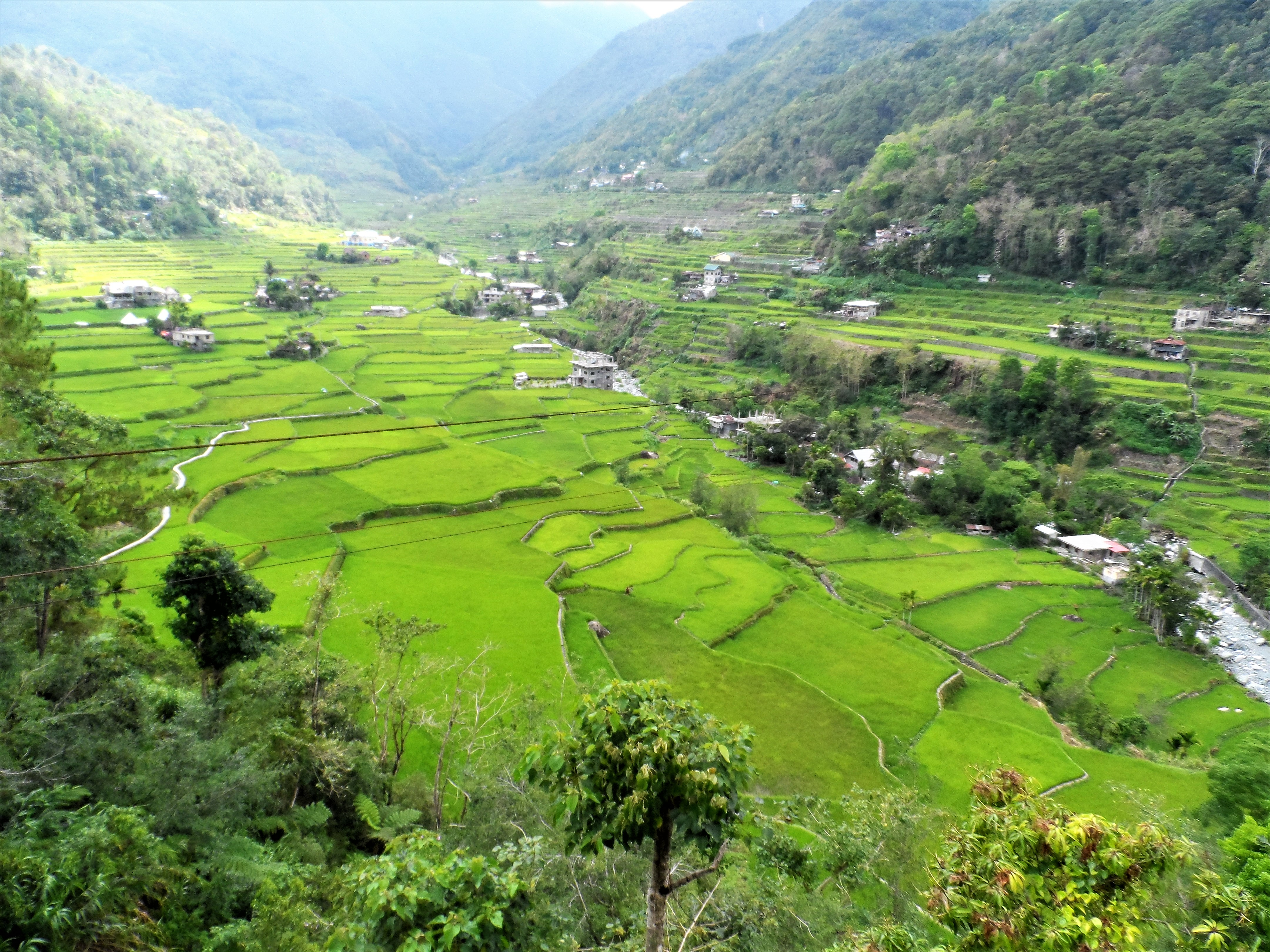 This mountainside has been marked as a site of special heritage by UNESCO for its rice terraces.